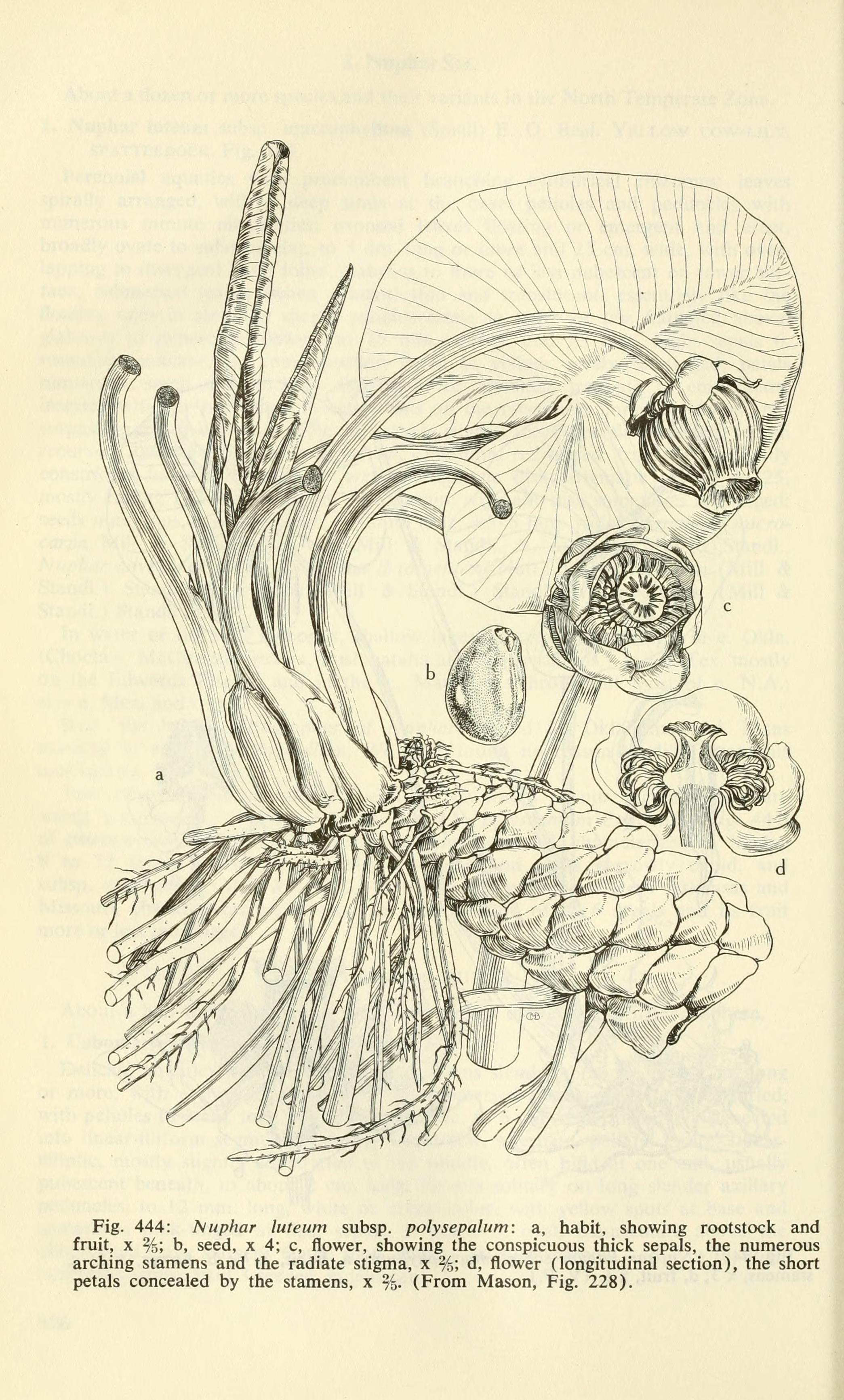 Aquatic and wetland plants of southwestern United States, by Donovan S. Correll and Helen B. Correll.